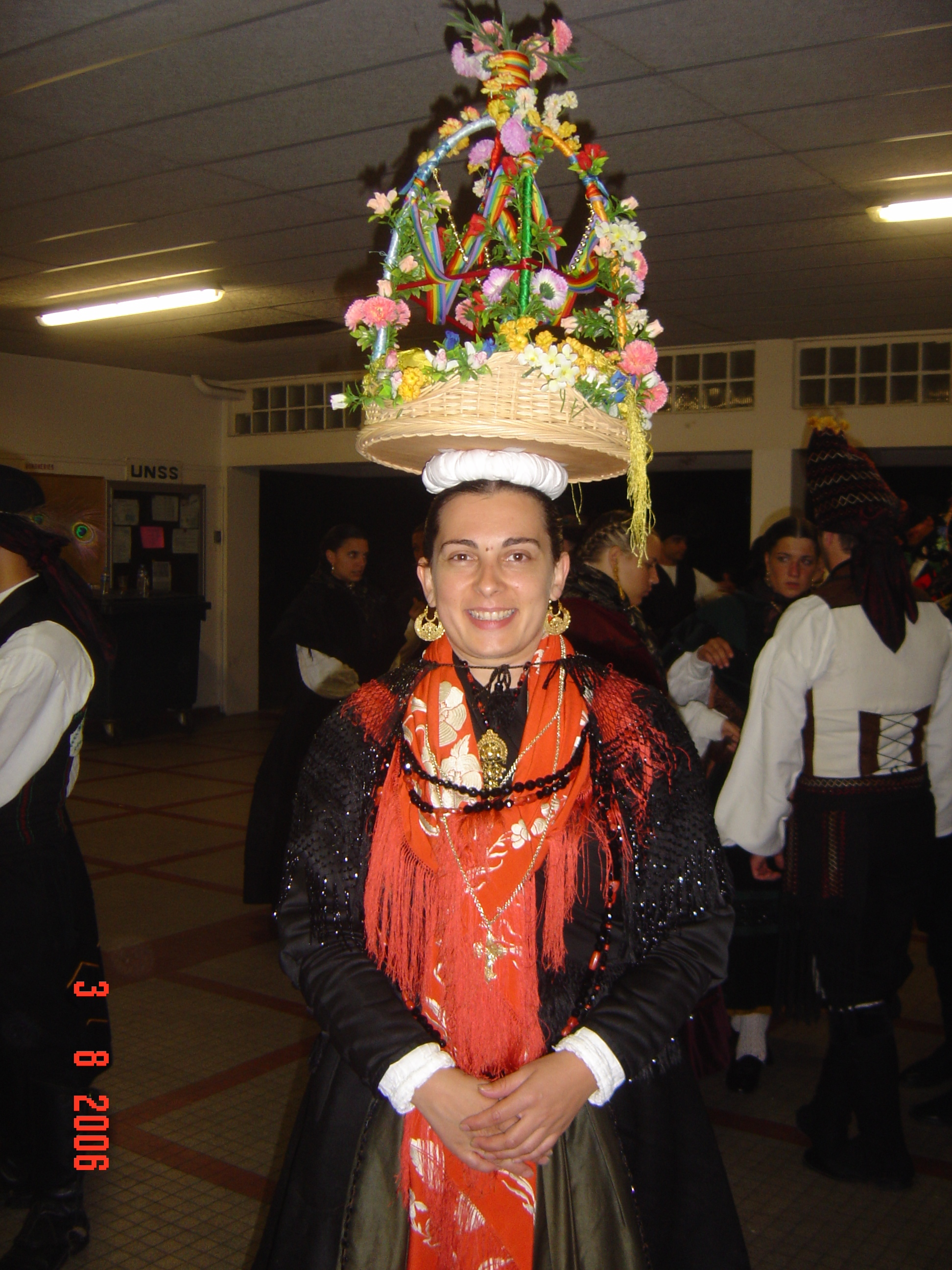 Dancer from Asturia in Spain, during the 2006' Interceltic Festival in Lorient, France.